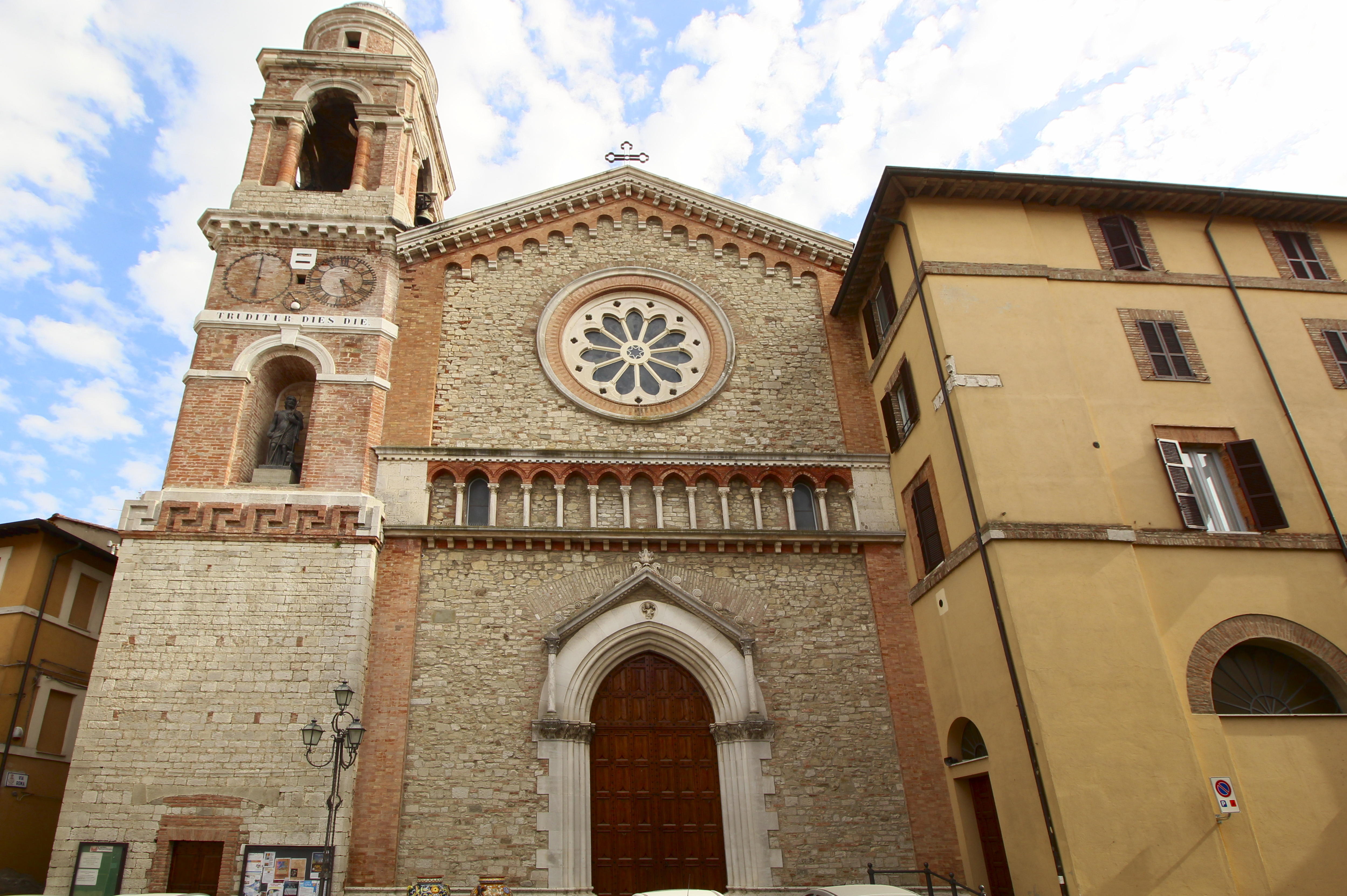 church San Giovanni Battista, Marsciano, Province of Perugia, Umbria, Italy